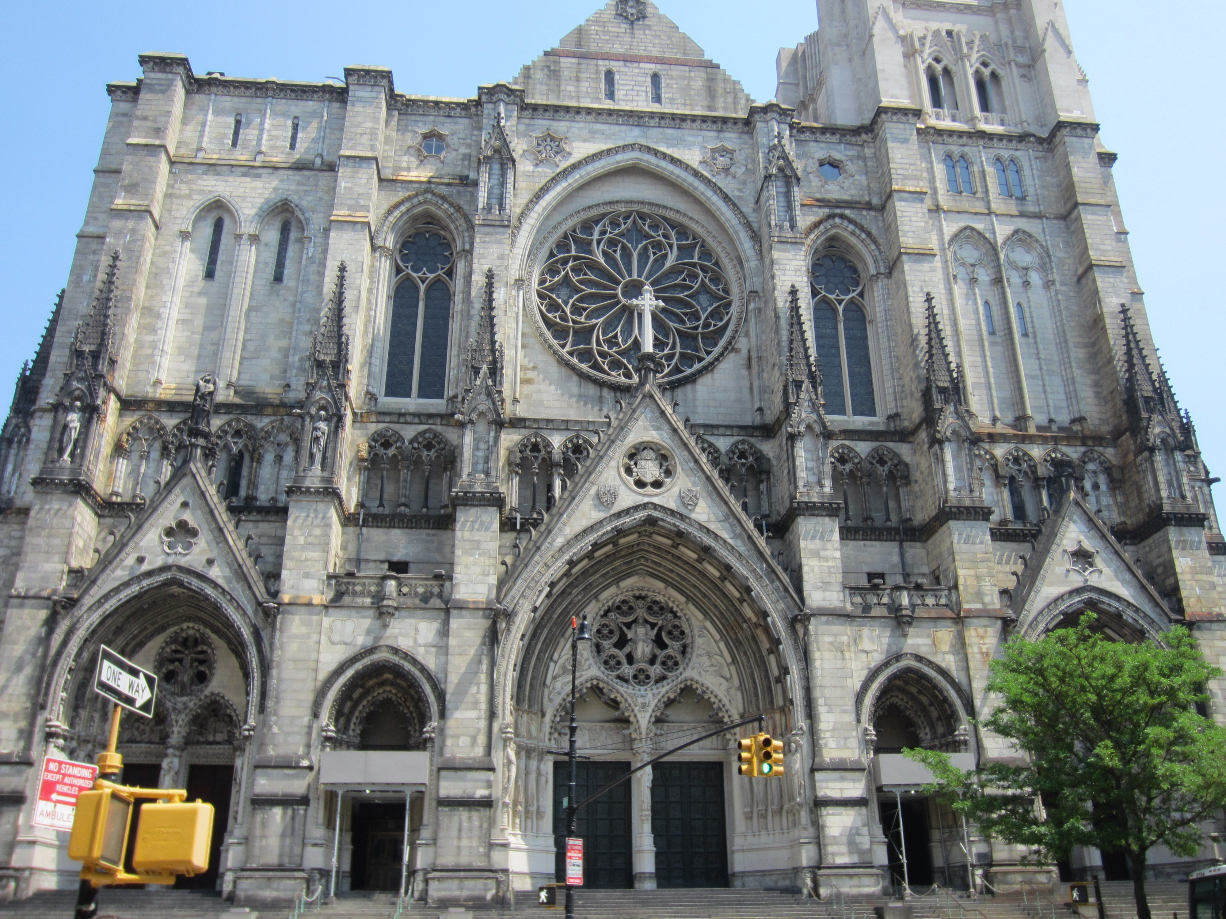 Cathedral of Saint John the Divine in New York City in June 2014